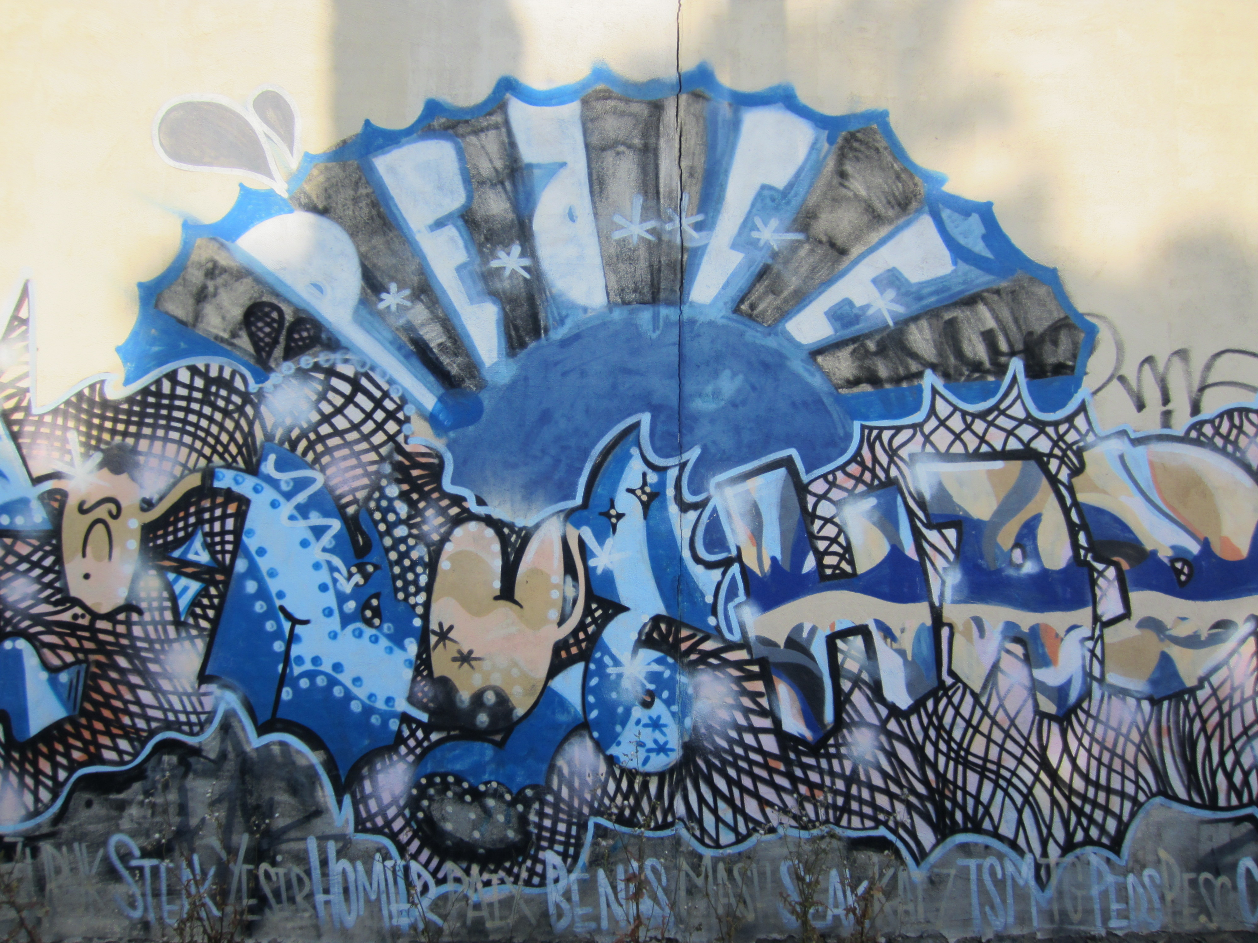 Street Art, off Derwent St, Newport, Victoria